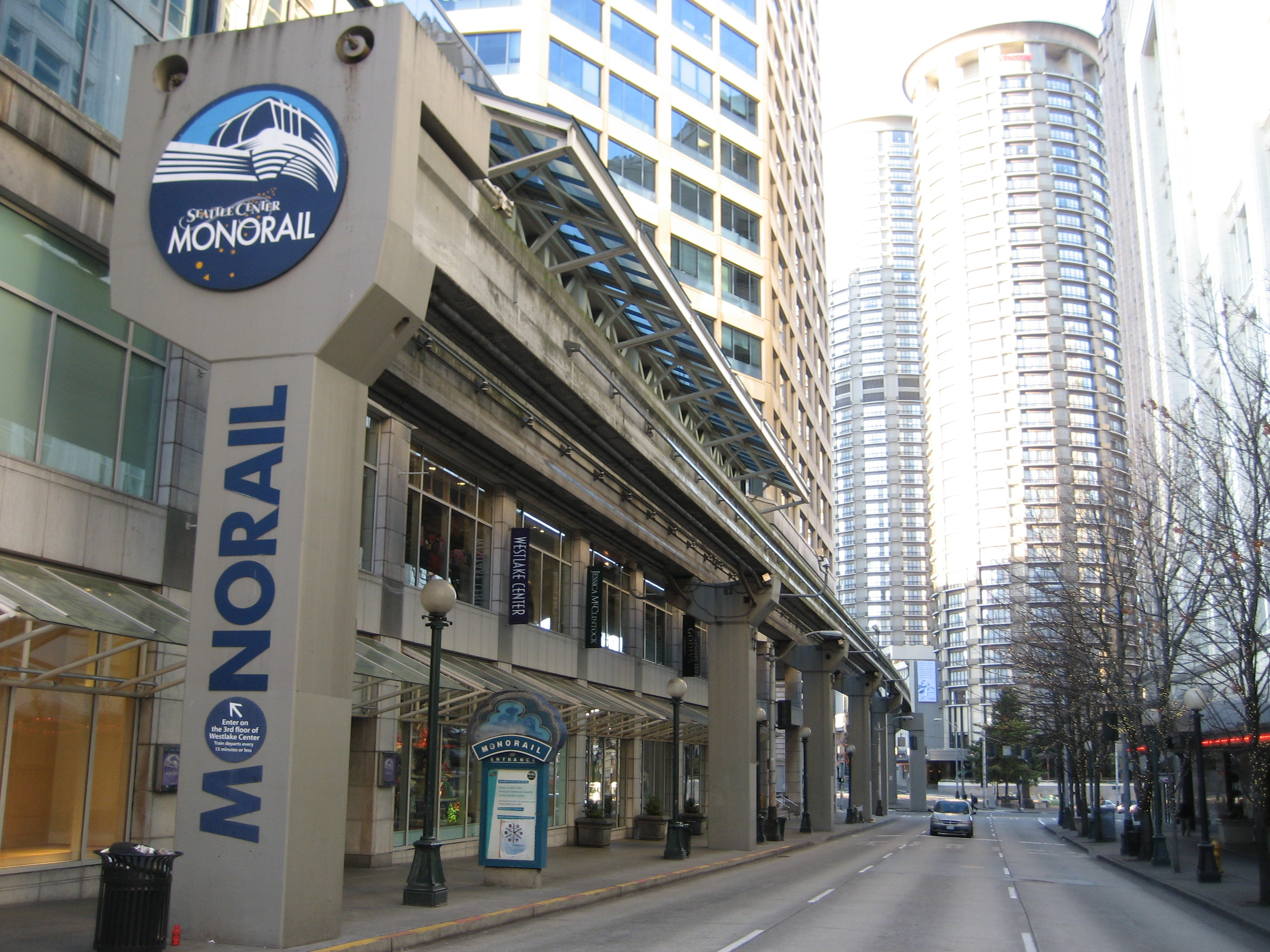 The Westlake terminus.